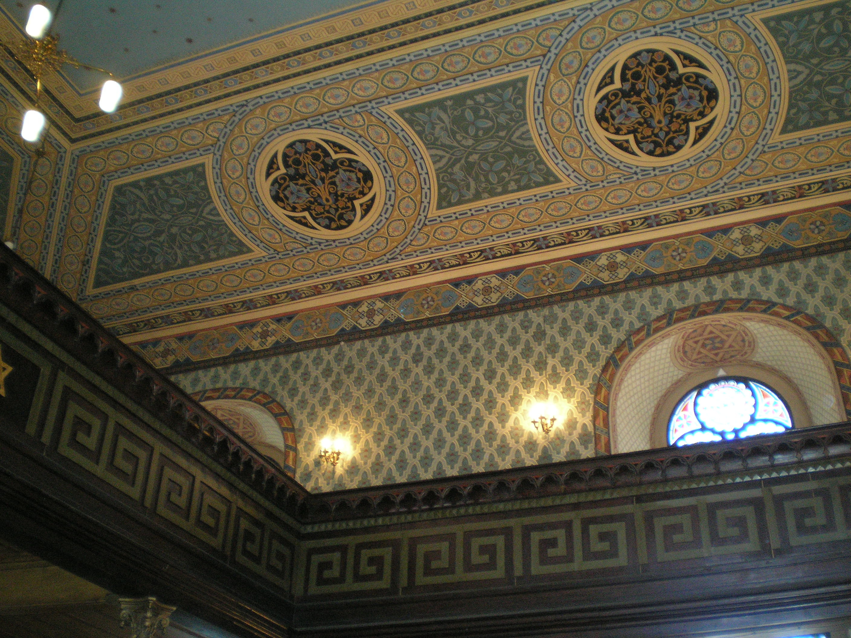 Synagogue Heřmanův Městec - top wall